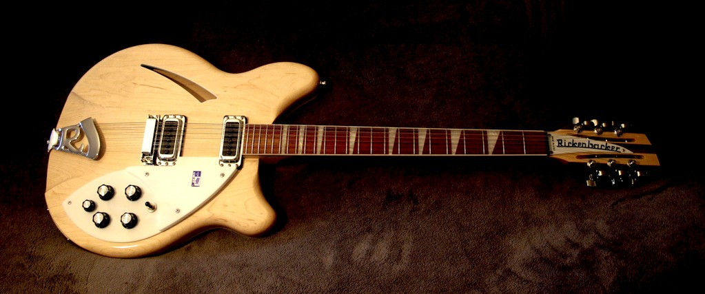 Rickenbacker 360-12 001 Guitar. Cropped version of a photograph found on Wikimedia Commons File:Rickenbacher_360-12-001_by_Hal_Hawkins.jpg